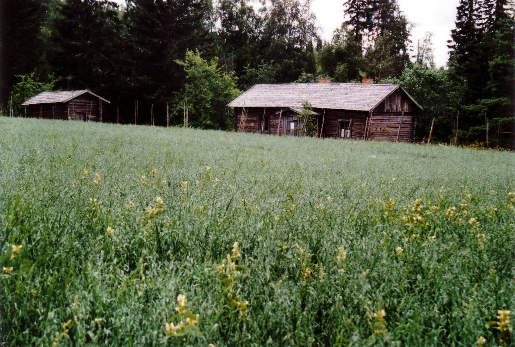 Birthplace of Finnish Nobel laureate Frans Eemil Sillanpää. Myllykolu, Hämeenkyrö, Finland